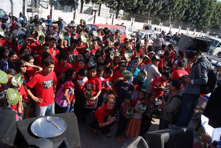 Activista Big Bang, held 4 November 2010 in Nepal, pressing for the inclusion of the Right to Food in the constitution.